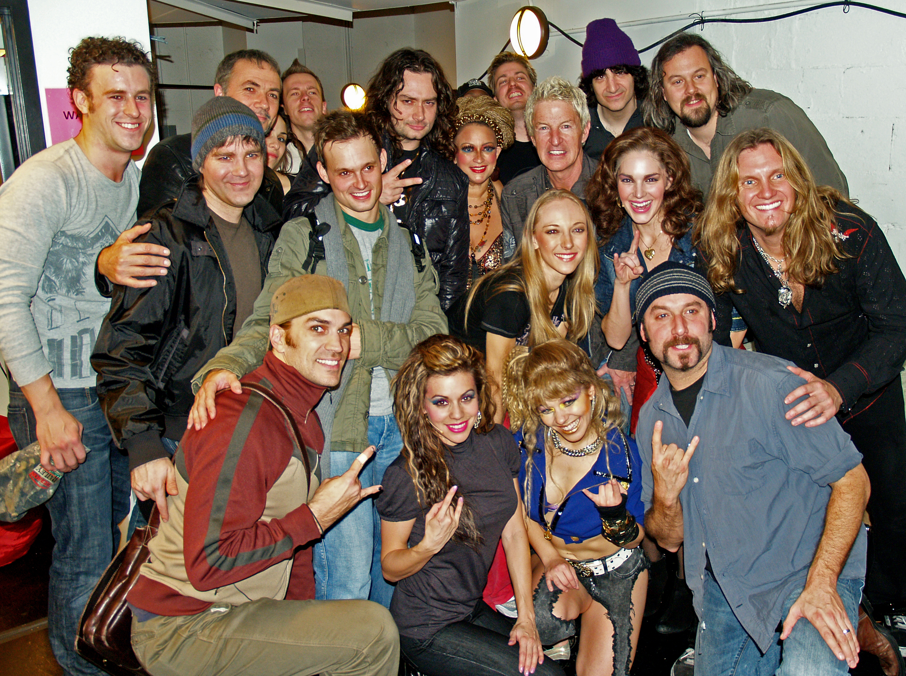 Constantine Maroulis and the 2008 cast of the off-Broadway musical Rock of Ages. From left to right: First Row - Will Swenson (Stacee Jaxx), Angel Reed (Young Groupie), Savannah Wise (Waitress), Adam Danheisser (Dennis) Second Row: Brian Munn (Mayor), Jeremy Woodard (Joey Primo), Lara Janine (Female Cover), Kelli Barrett (Sherrie), Joel Hoekstra (Guitar 1, Guitarist for Night Ranger) Third Row: Christopher Spaulding (Male Cover), Paul Schoeffler (Hertz), Nova Bergeron (Dance Captain), Kessler (Band Member), Constantine Maroulis (Drew), Michele Mais (Justice), Richard Maheux (Conductor), Kevin Cronin (Singer/Guitarist REO Speedwagon), Jon Weber (Drums), Tad Wilson (Offstage Singer/Male Cover)